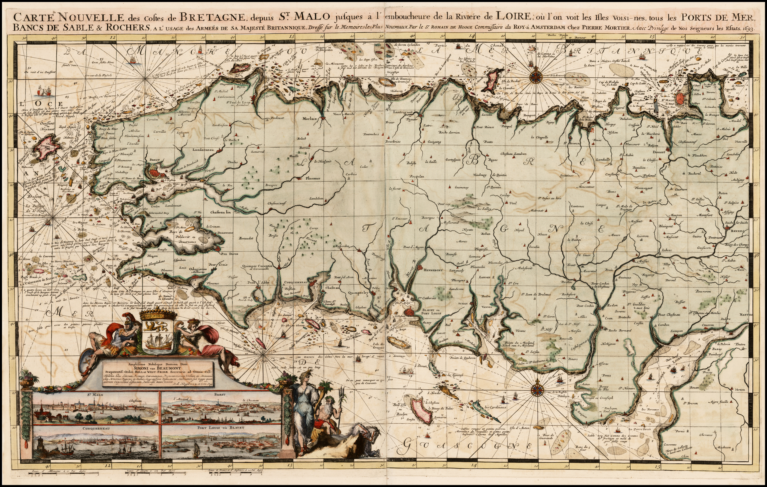 Double page sea chart of the Bretagne, from "Le Neptune Francois, ou Atlas Nouveau des Cartes Marinesà...". Printed in Amsterdam by Pierre Mortier. The chart provides a detailed treatment of the Bretagne Coastline along with coastal details and sailing information. The inset includes views of St. Malo, Brest, Conquernaeu and Port Louis or Blavet, surmounted by a coat of arms and surrounded by allegorical figures. Nautical atlas "Le Neptune françois ou Atlas Nouveau des Cartes Marinesà l'usage des armées du roy de la Grande Bretagne" is one of the most elaborately decorated atlases ever published. Printed in Amsterdam by Pierre Mortier in 1693, this sea atlas reproduced the latest maps of the coast of western Europe by the French Académie Royale des Sciences. Three parts in one volume, large folio (640 by 530mm). This monumental atlas is made up of three works: 'Le neptune François'; 'Cartes marines a l'usage des armées du Roy de la Grande Bretagne'; and 'Suite du neptune François'. The first two parts were first published by Mortier in 1693, the third was issued by him in 1700.